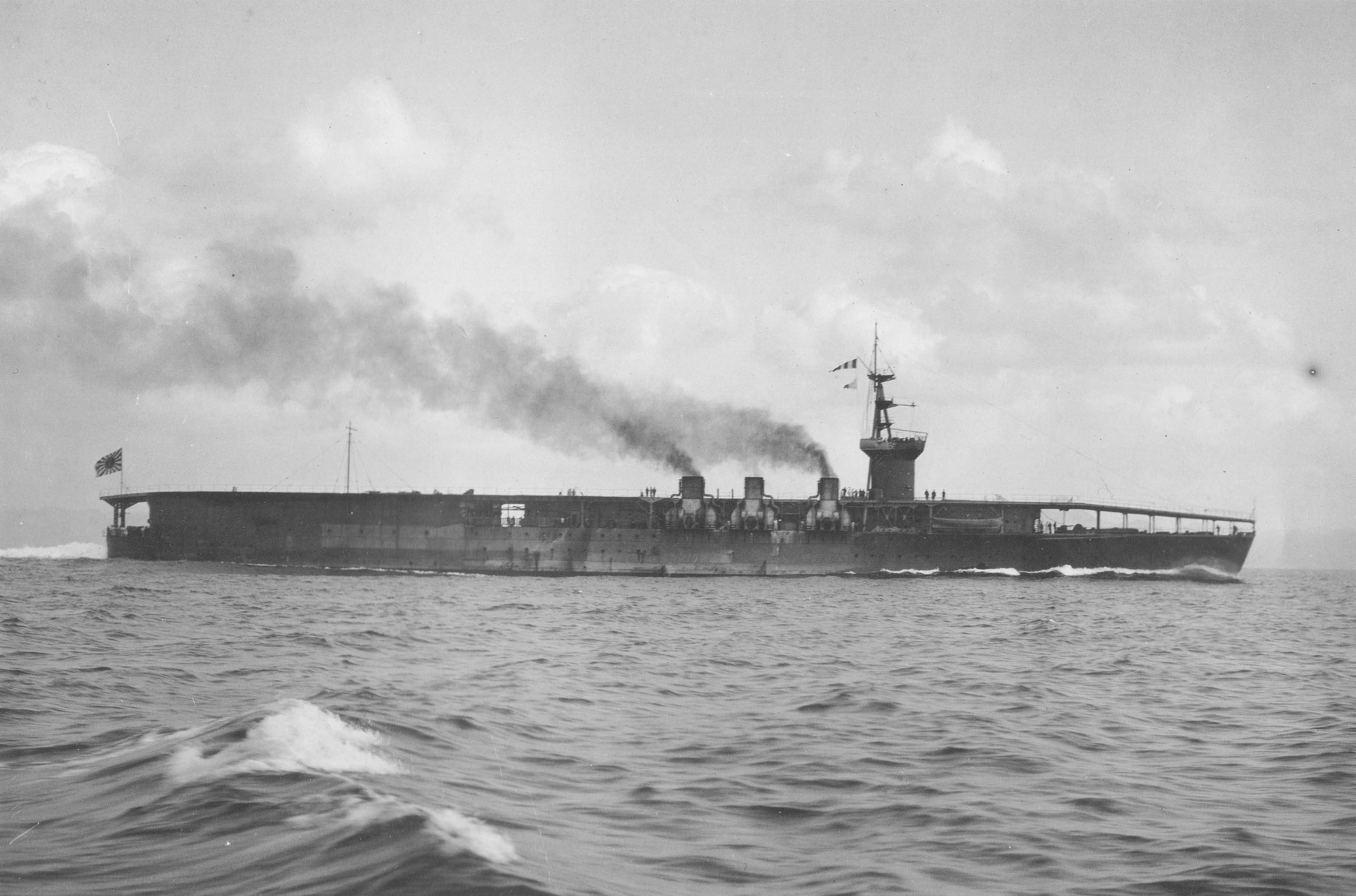 Imperial Japanese Navy aircraft carrier Hōshō undergoes full power trials in Tateyama Bay, Japan.